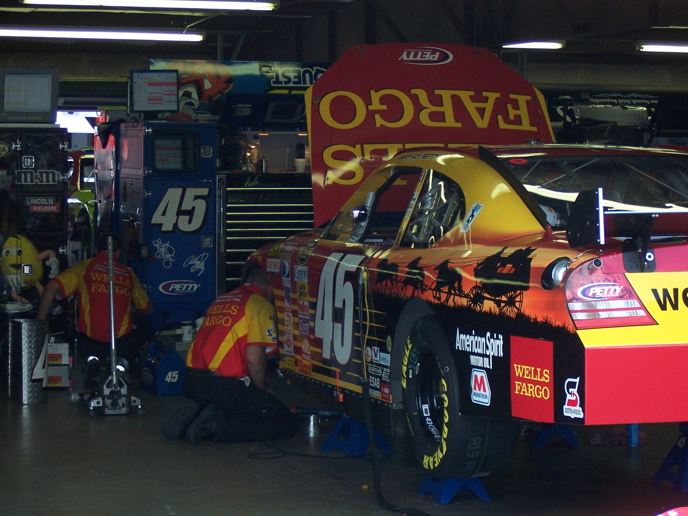 Kyle Petty's #45 Dodge in the garage at New Hampshire Motor Speedway, June 31, 2007.